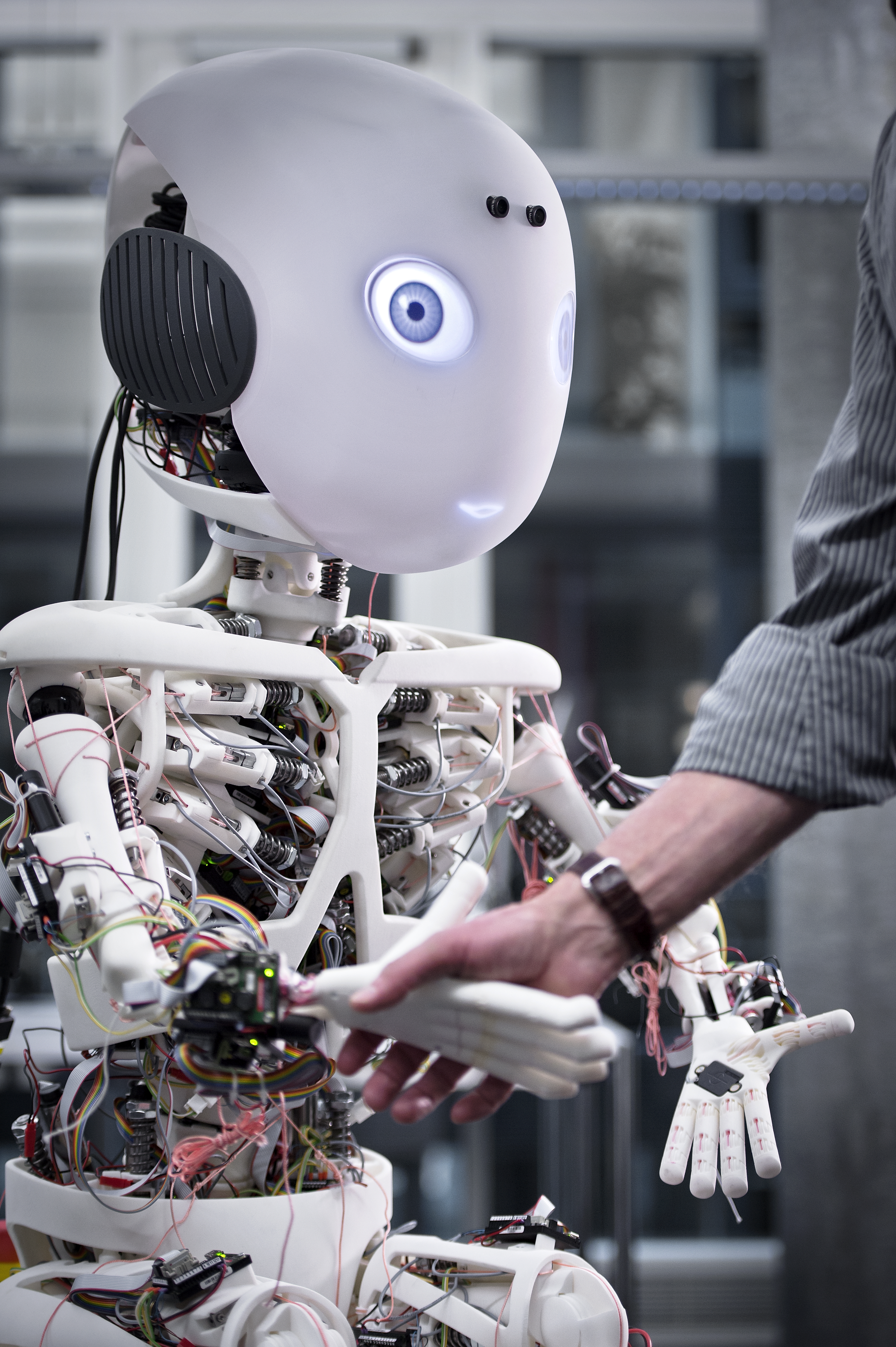 Vorstellung des Roboters Roboy, einer Neuentwicklung des Artificial- Intelligence-Labors der Universität Zürich.27.Februar 2013.Bild: Adrian Baer